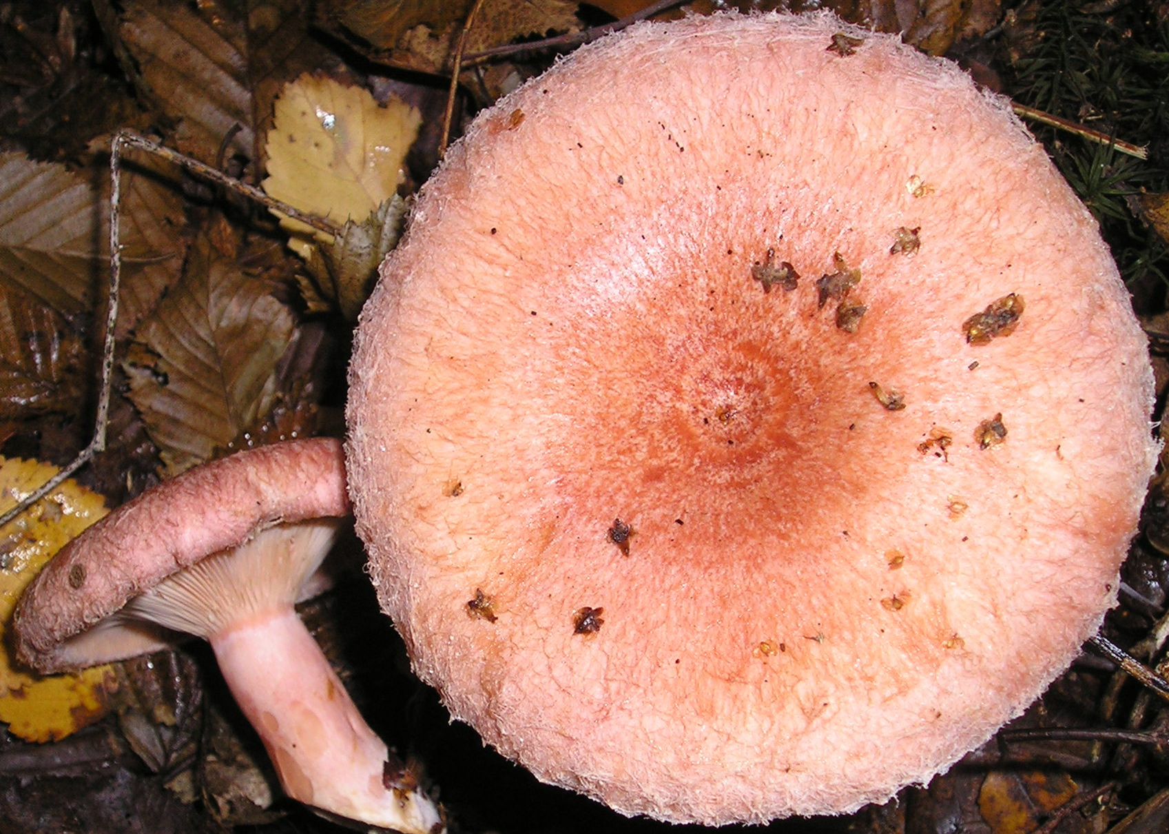 Lactarius torminosus (Woolly Milk-cap) in a French wood near Rambouillet.